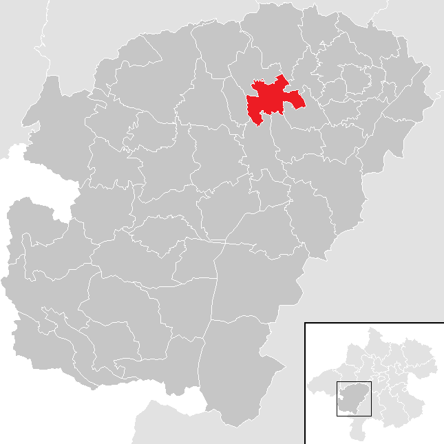 District Vöcklabruck